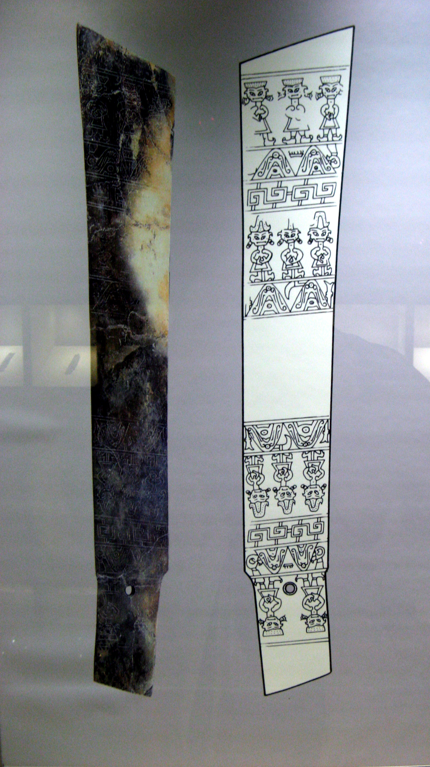 Large jade zhang blade. Sanxingdui Museum. Length 54 cm (21 in). For ritual use, the implement would have been held upright by a kneeling person.